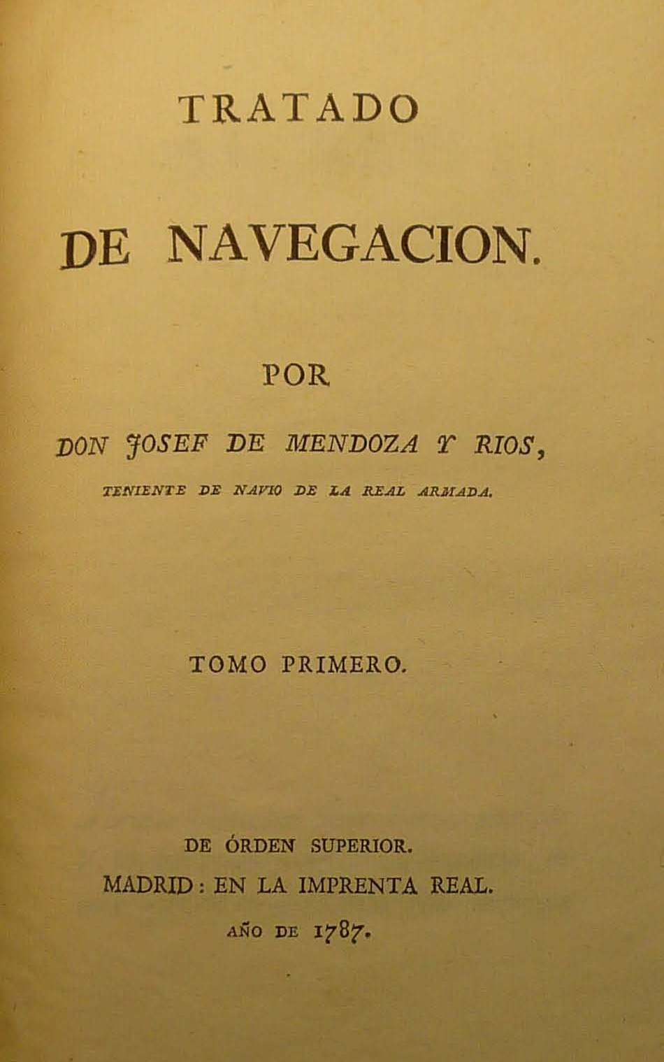 Tratado de Navegacion - Mendoza Rios. Tomo I